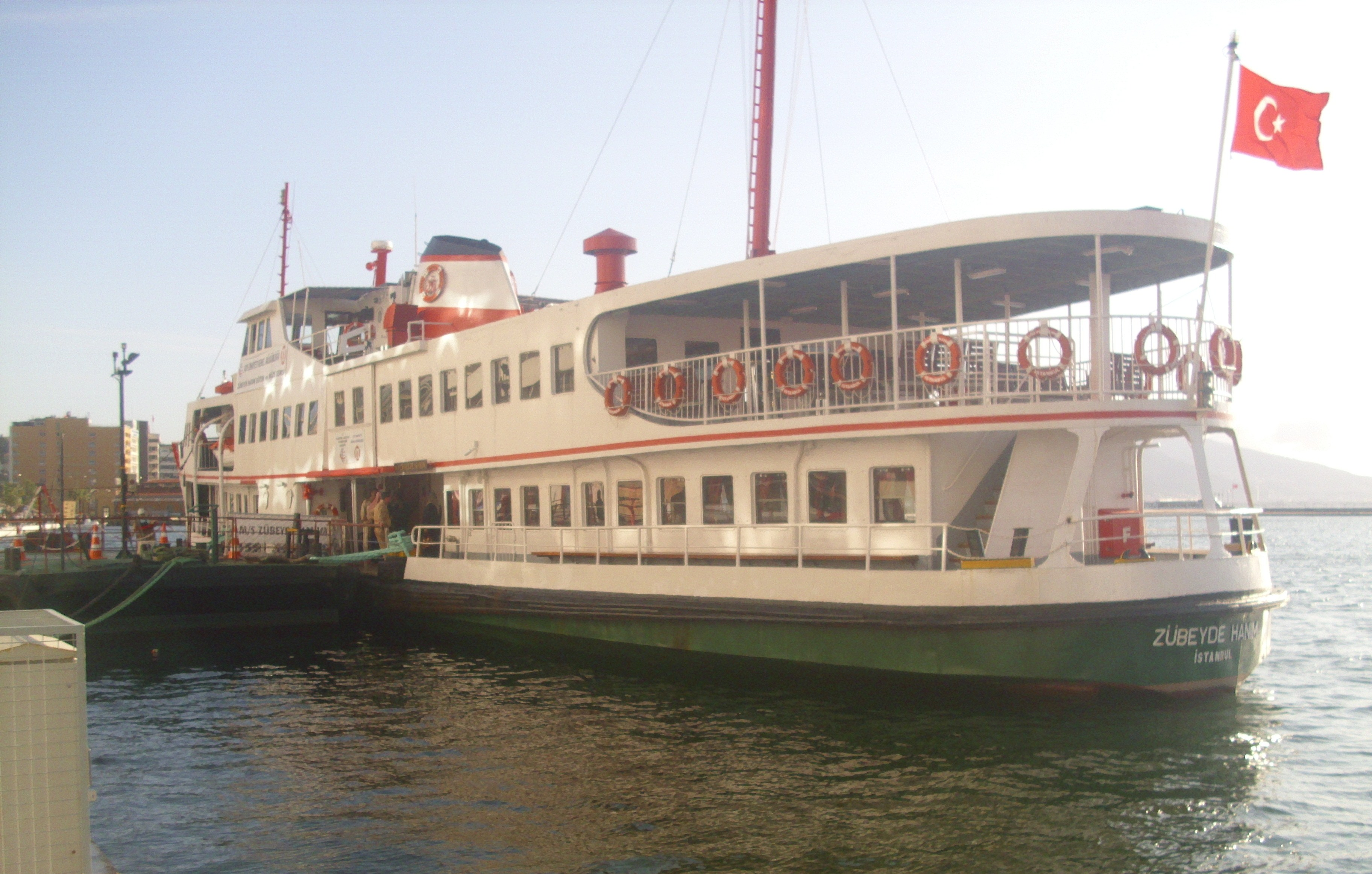 Zübeyde Hanım Ship Museum